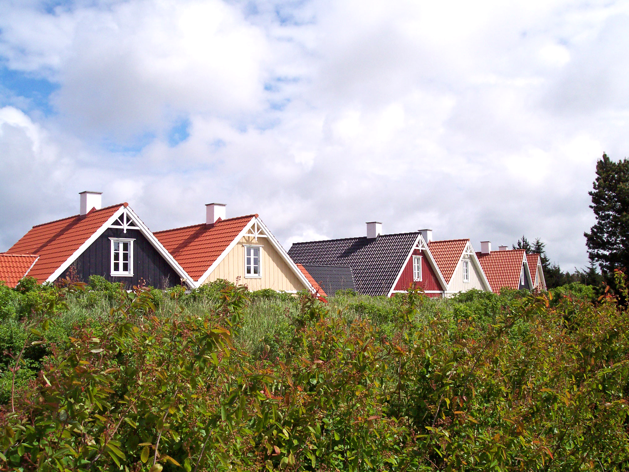 Terrace houses in Blåvand, Denmark